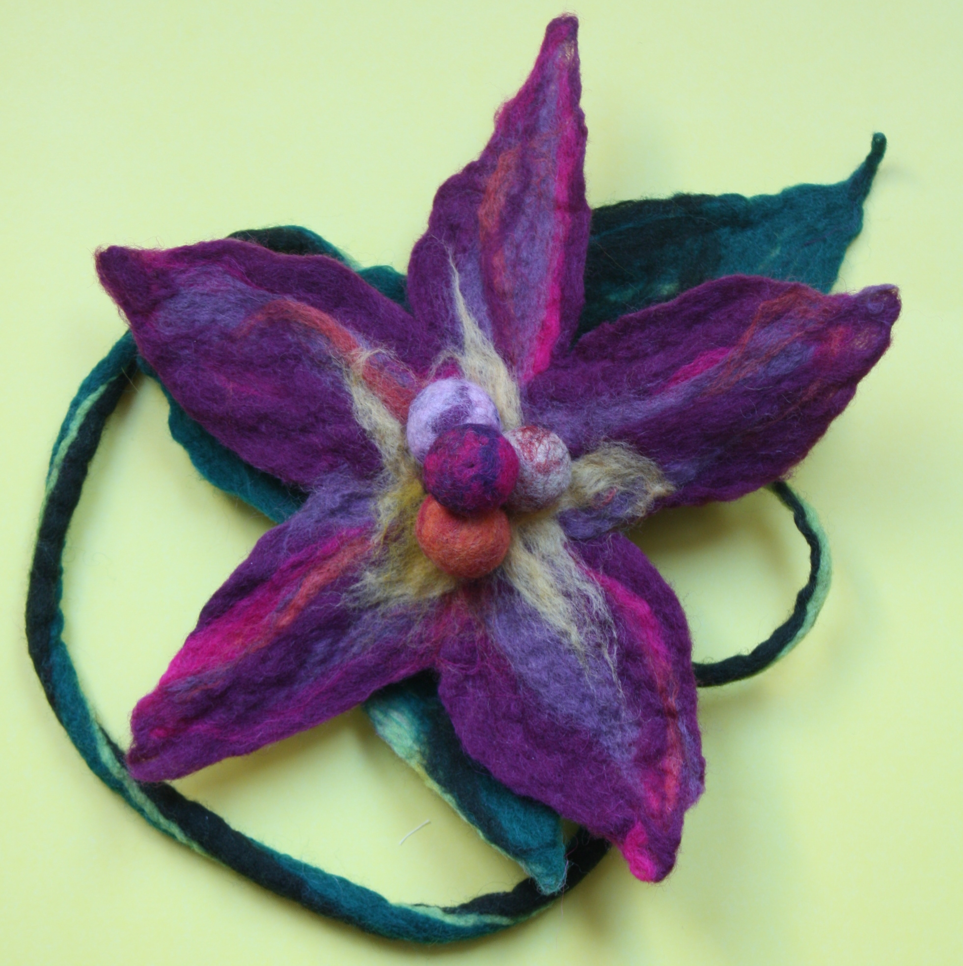 Felted flower